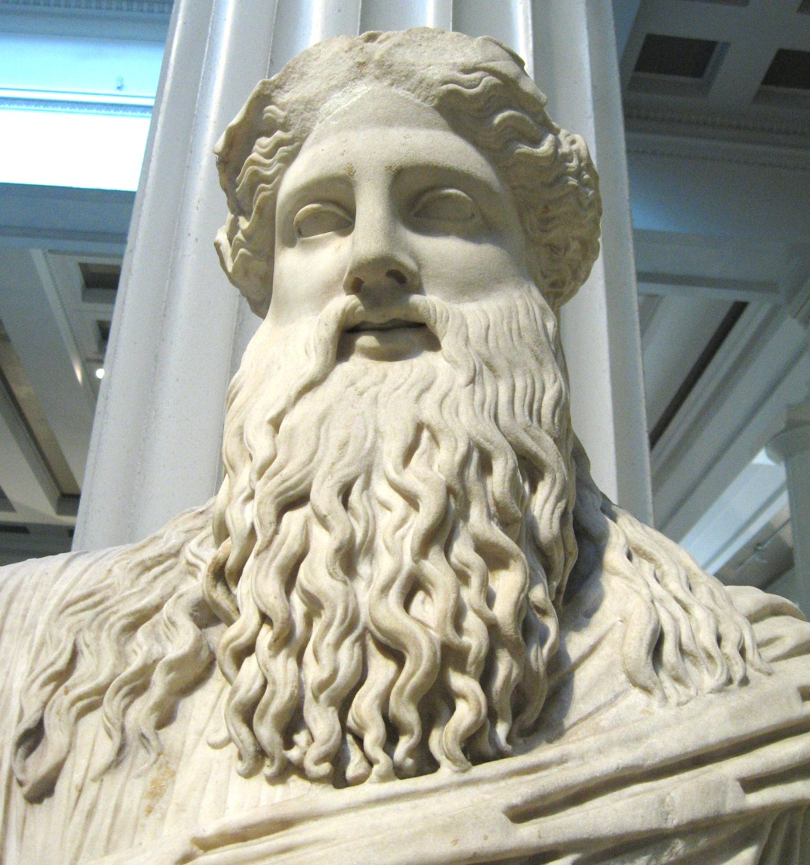 Statue of Dionysus wearing a laurel wreath in the British Museum in London. The marble is a Roman copy c. AD 40 - 60 of a Greek original c. 350 - 325 BC. From the Naples area. Photograph taken by me February 2 2008